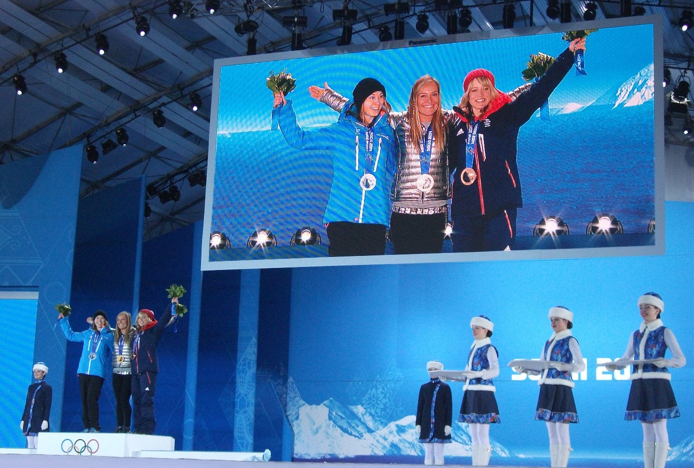 Rewarding of winners in slopestyle among women on XXII Winter Olympic games 2014 in Sochi